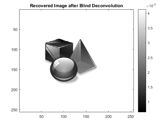 Recovered image after applying algorithms of blind deconvolution